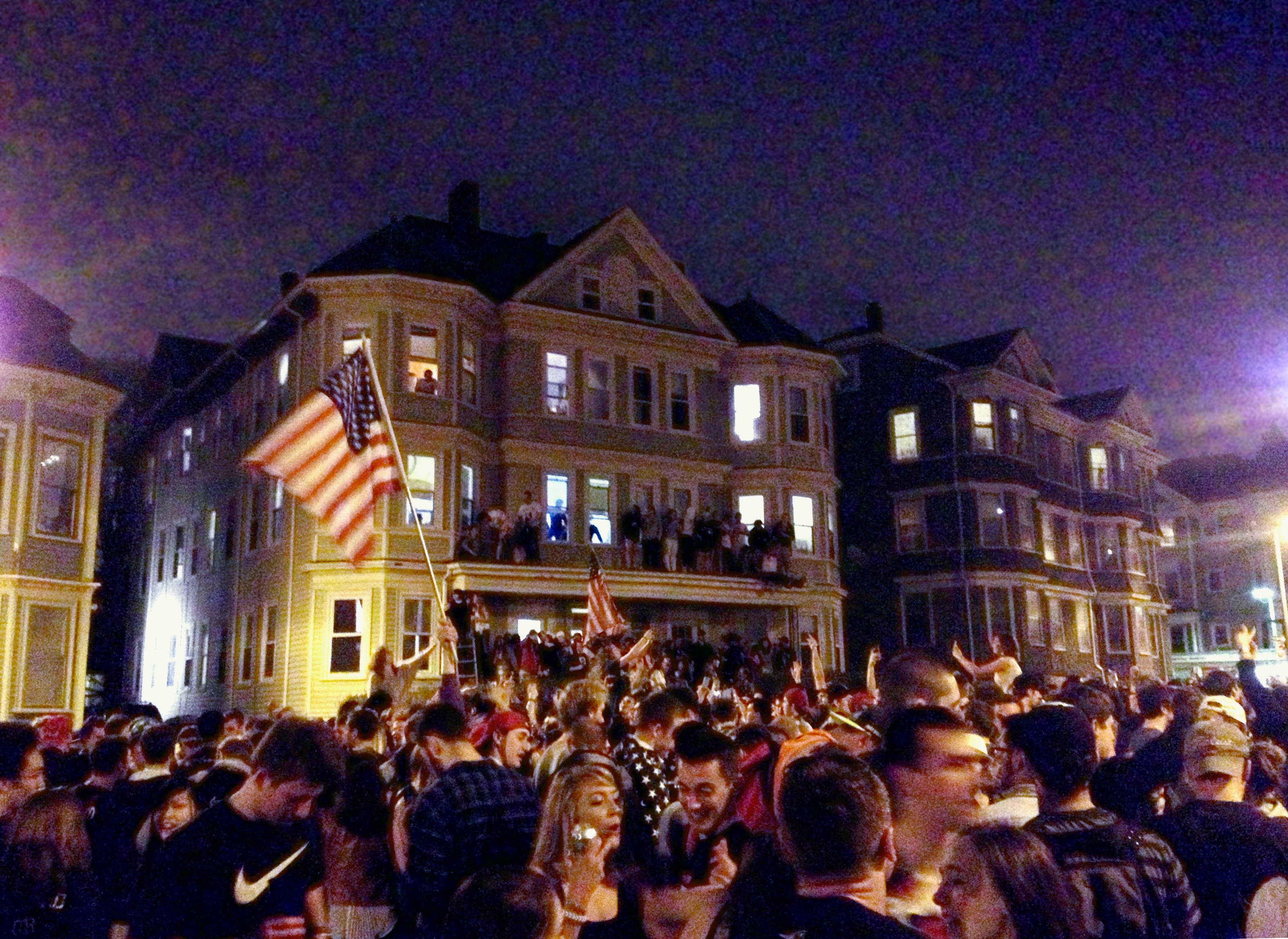 Celebrations following the capture of the second suspect in the 2013 Boston Marathon Bombings in Boston's Mission Hill neighborhood. Taken at Calumet and St. Alphonsus Streets on April 19, 2013.